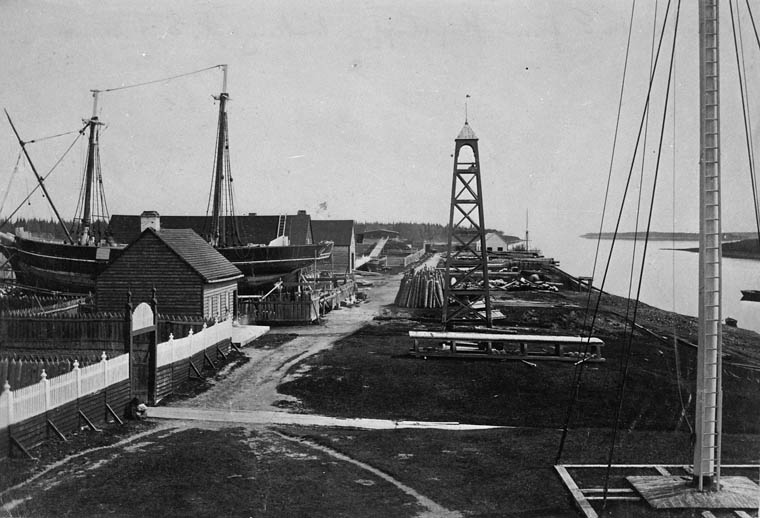 Moose Factory, Ontario circa 1868-1870, looking northeast and towards the sea.